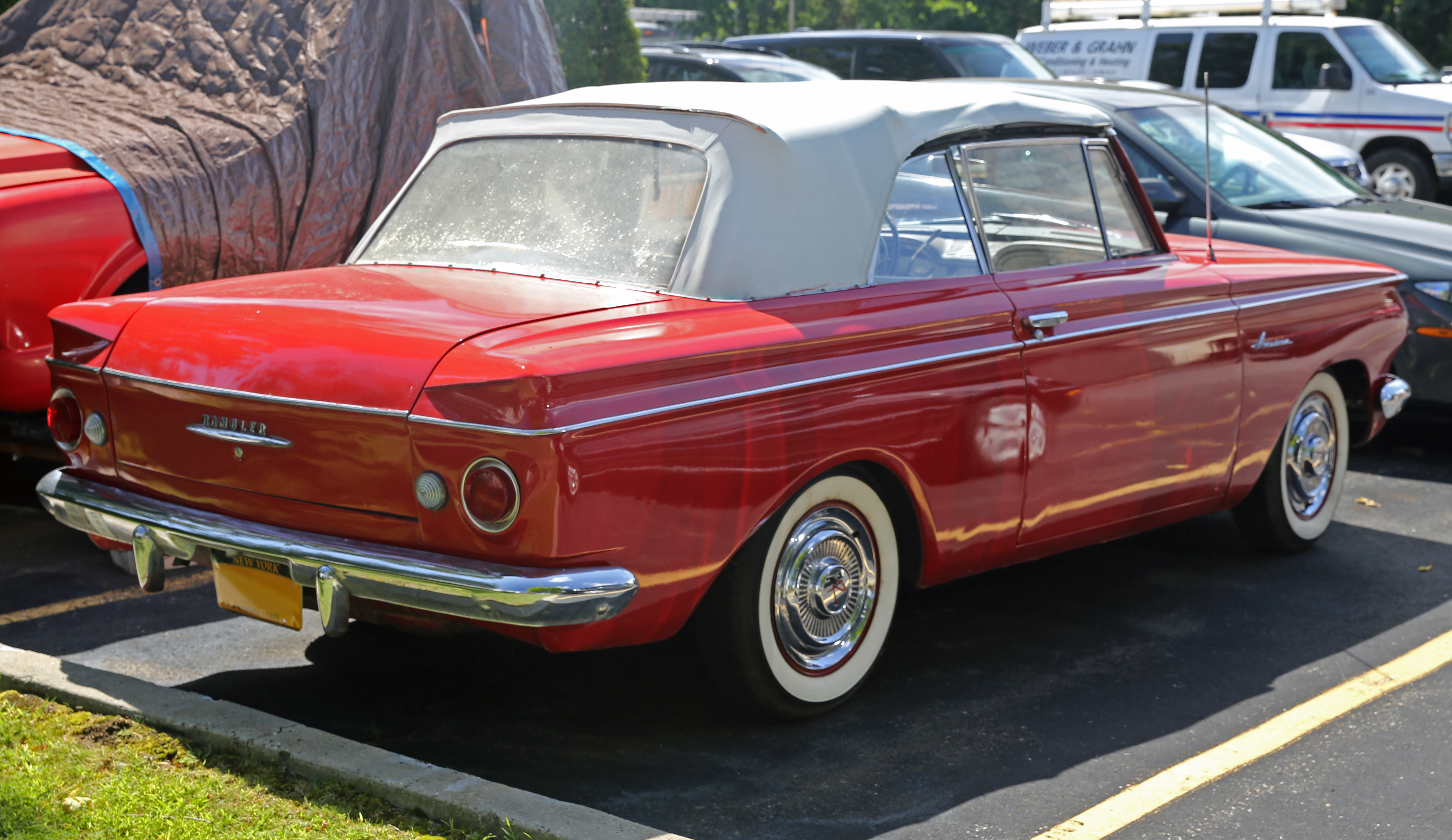 A 1961 Rambler American Custom 400 convertible at a garage in Long Island somewhere. For sale, $5K!